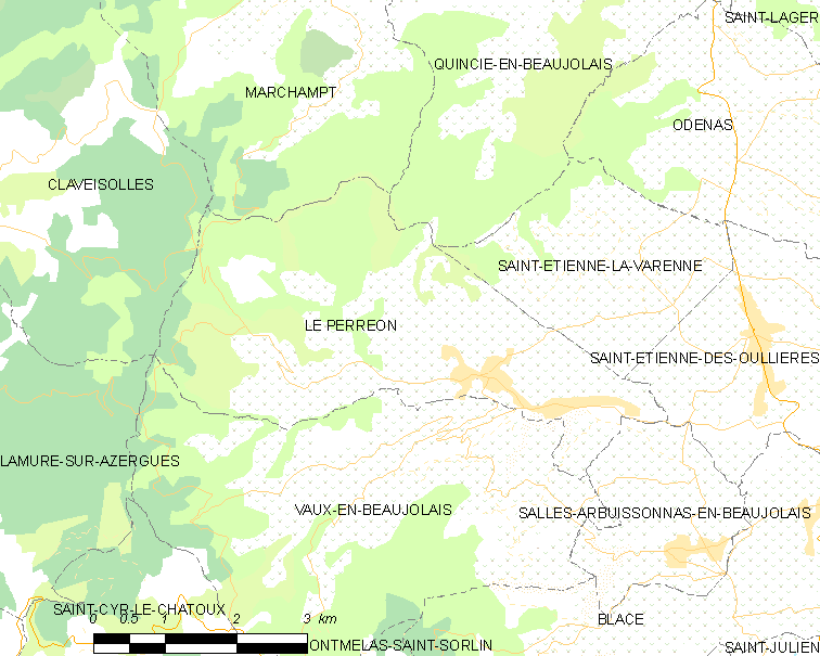 Map of French municipality